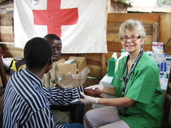 Dr. Maria Pongracz in Africa (AHU mission member)